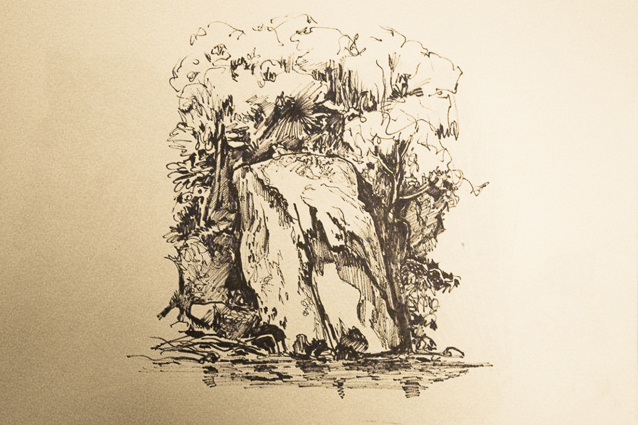 Pen and ink drawing Hawkesbury River 1980s by Ian Sprague; photographed in a private collection at Enfield Victoria